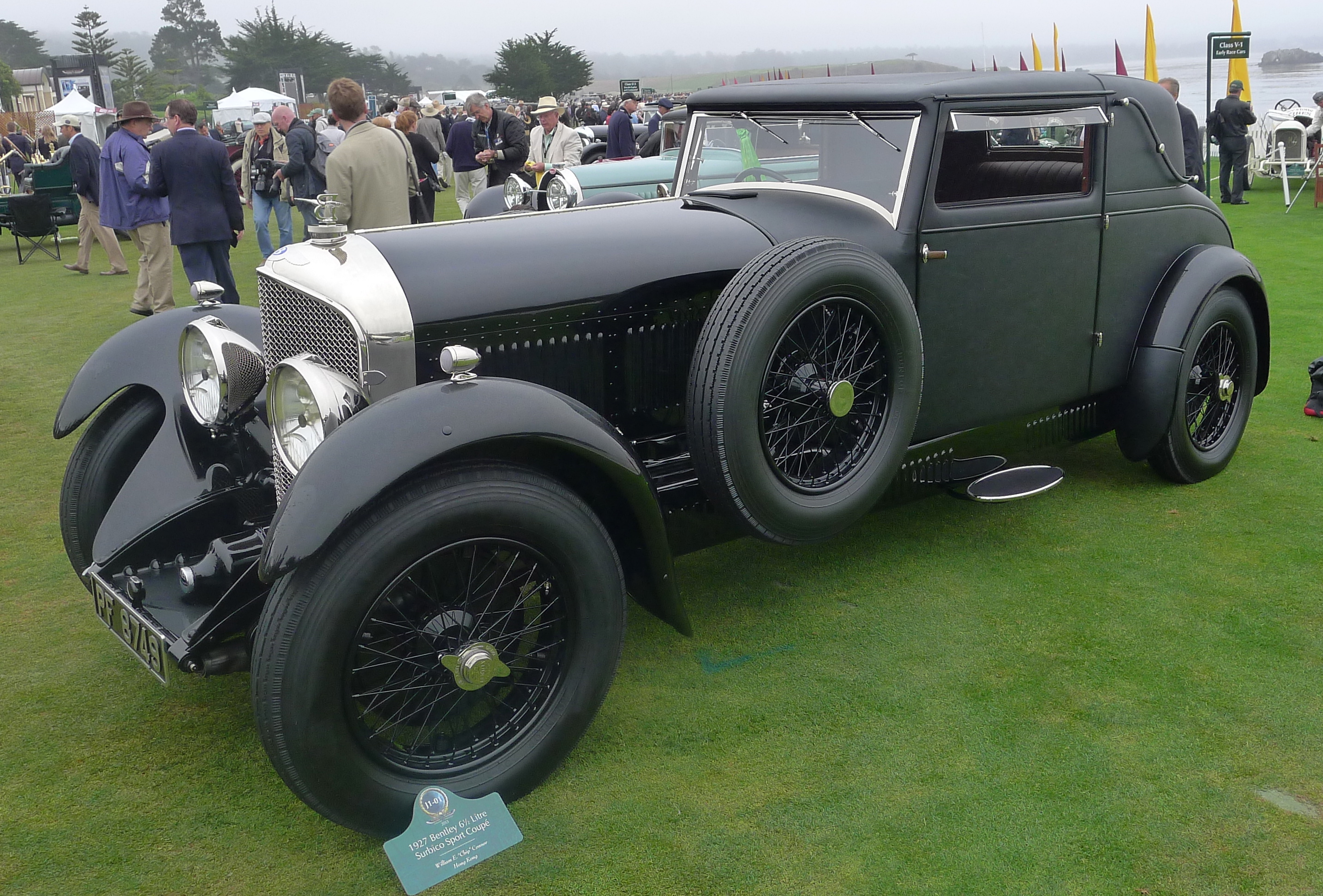 Bentley 6½-litre Weymann fixed-head coupé by Surbiton Coach & Motor Works (Original, renovated, body) Chassis TW2713 Engine TW2716 (later upgraded to Speed Six specs) Reg PF 8749 delivered April 1927